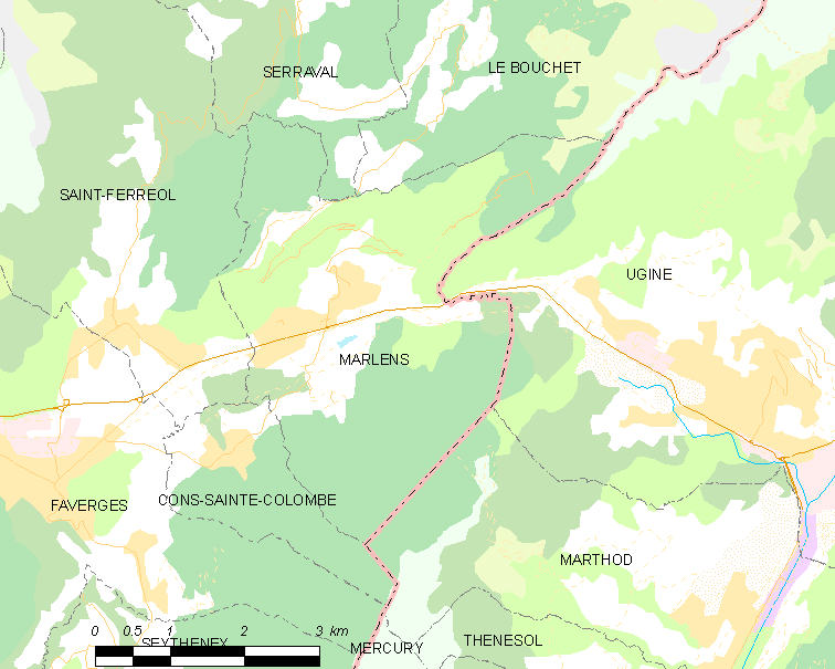 Map of French municipality Marlens